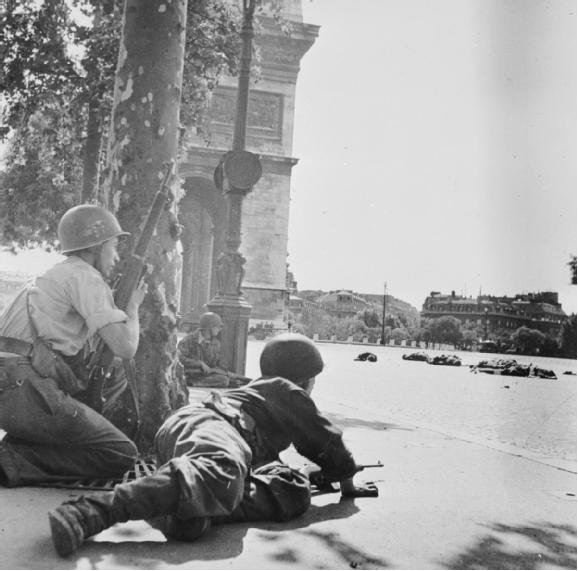 The Liberation of Paris: In the shadow of the Arc de Triomphe, two soldiers of the 2nd French Armoured Division shoot at German snipers and pro-German French militia who were making an abortive attempt to free German prisoners. The latter lie dead on the Champs Elysees.